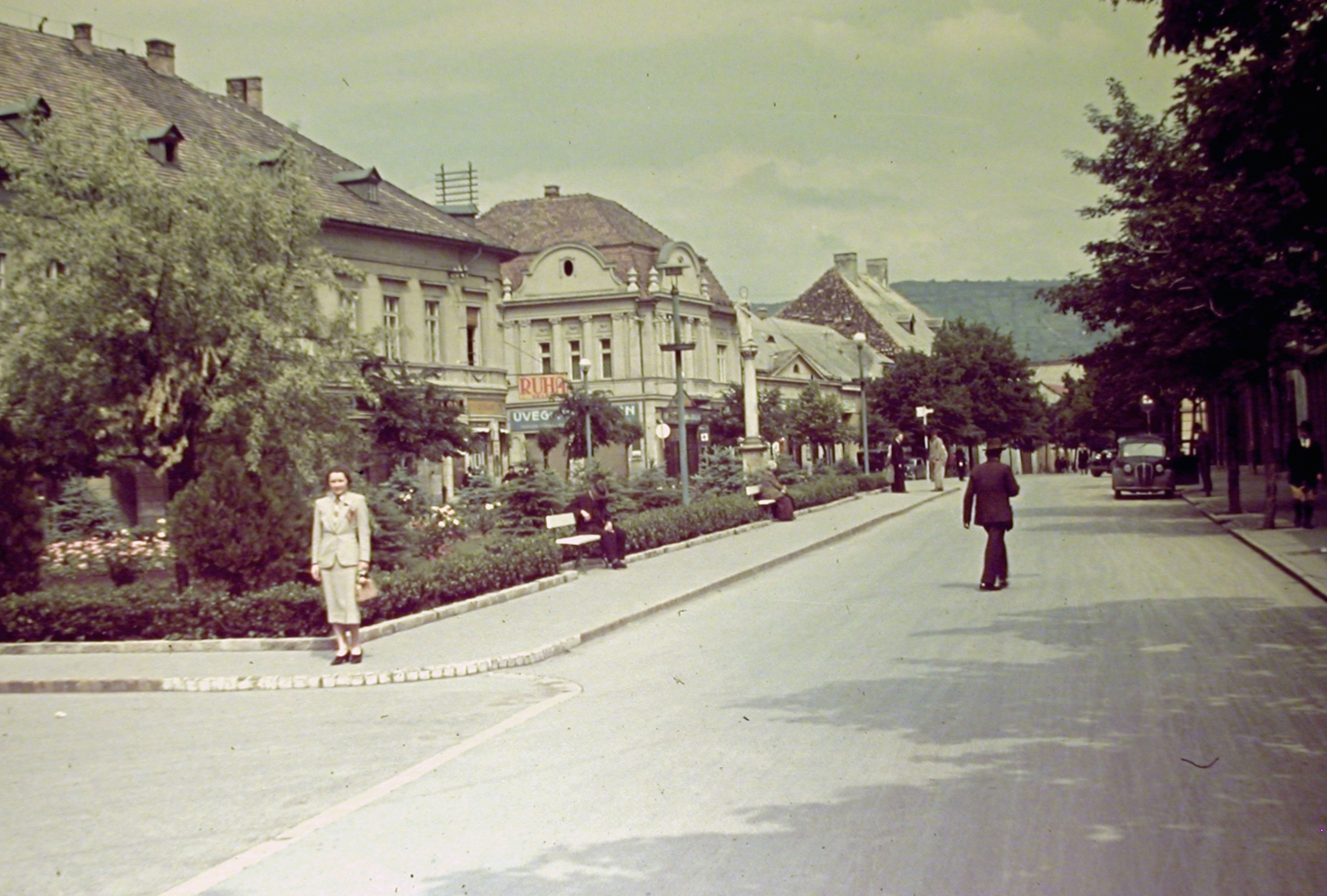 This Agfacolor photo (invention from 1936) was not colorized.